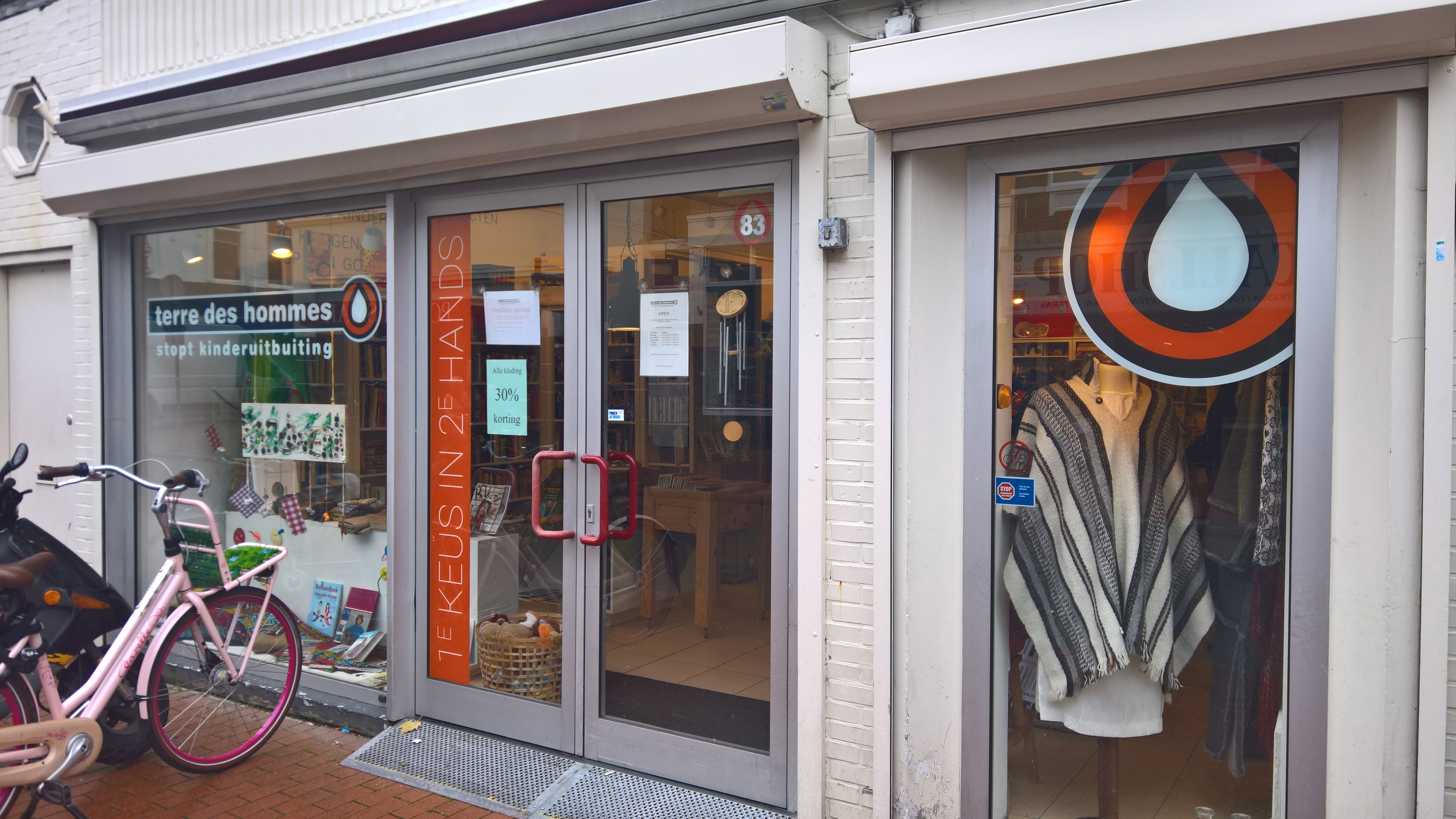 A second-hand shop operated by Terre des Hommes to fund their mission to stop child abuse.